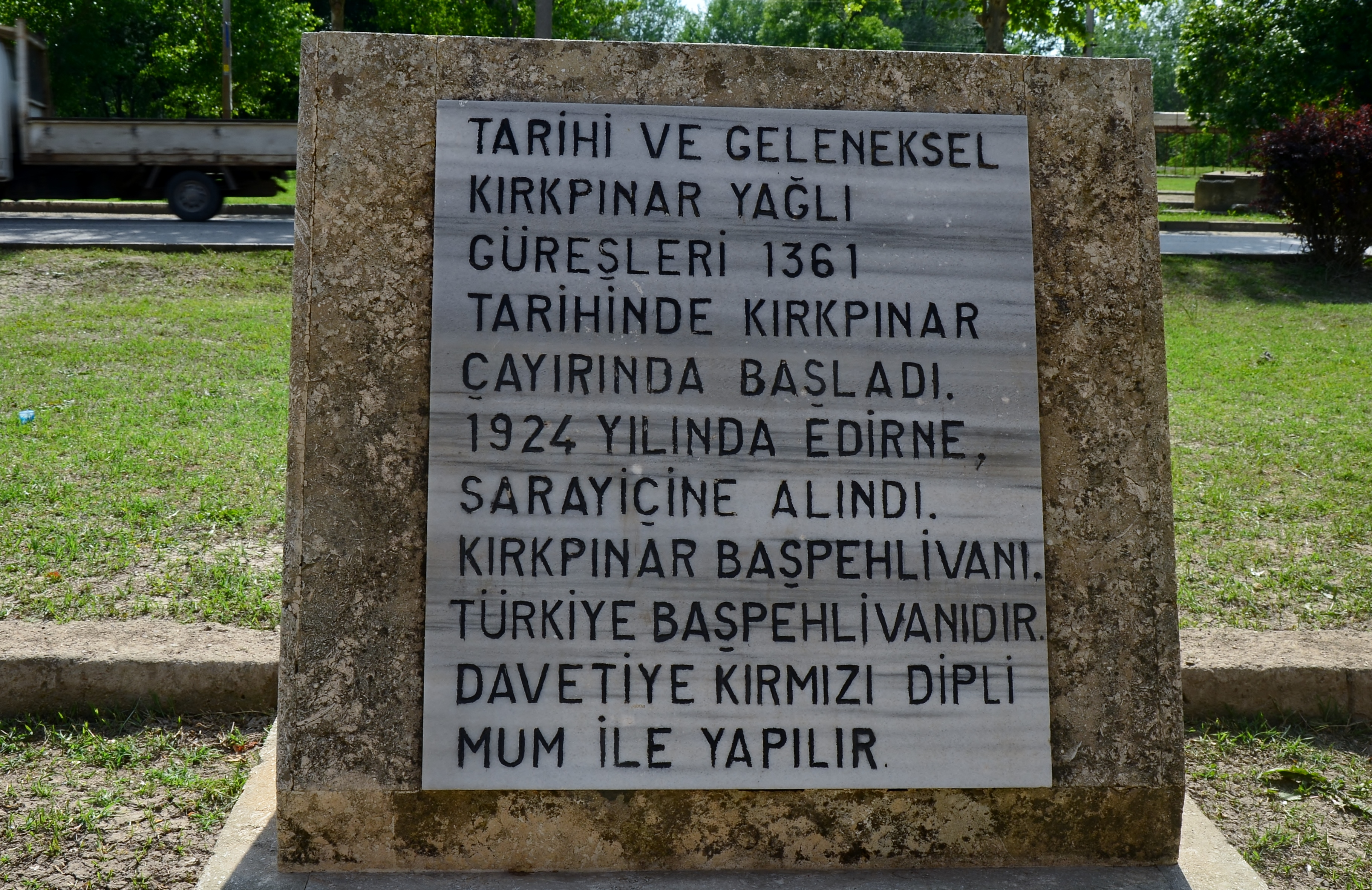 Turkish inscription about the history of Kırkpınar oil-wrestling tournament in Kırkpınar, Edirne Turkey